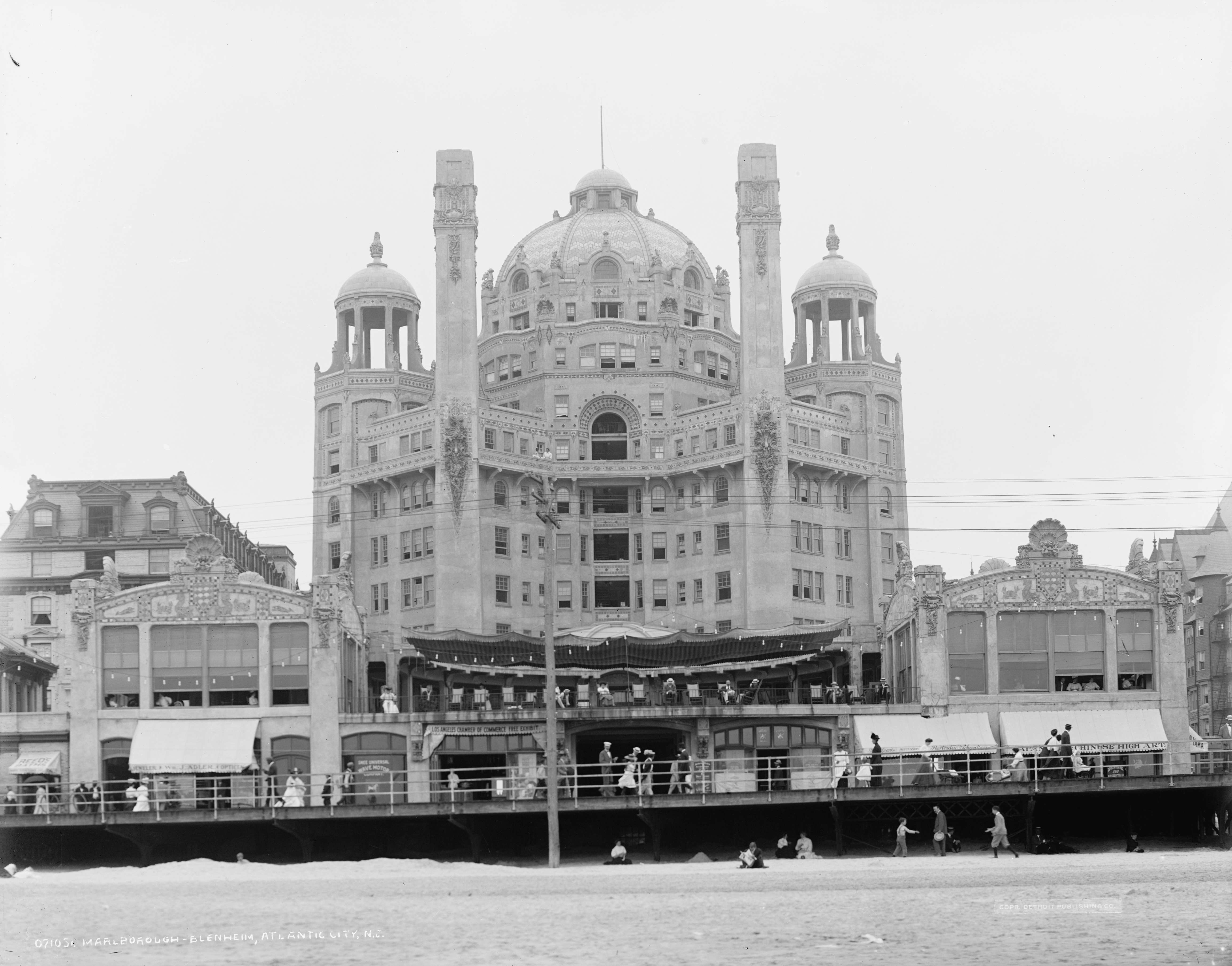 Marlborough-Blenheim Hotel, Ohio Avenue, Atlantic City, New Jersey; Price & McLanahan, Architects (1905-06)